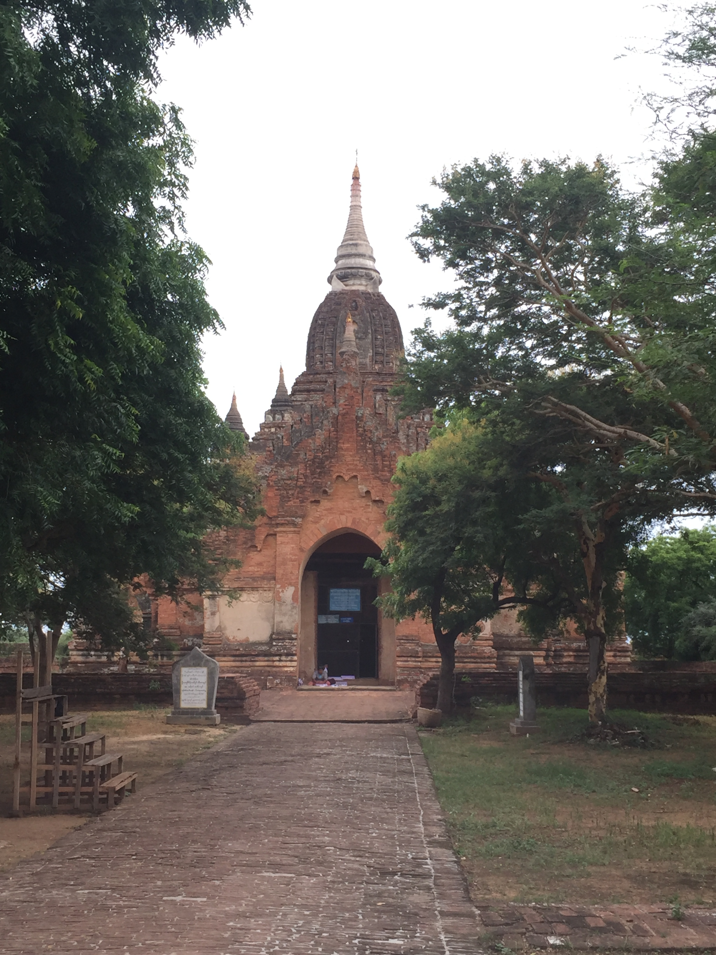 နဂါးရုံဘုရား(ပုဂံ) စေတီပုထိုးအမှတ်မှာ ၁၁၉၂/၅၃၀